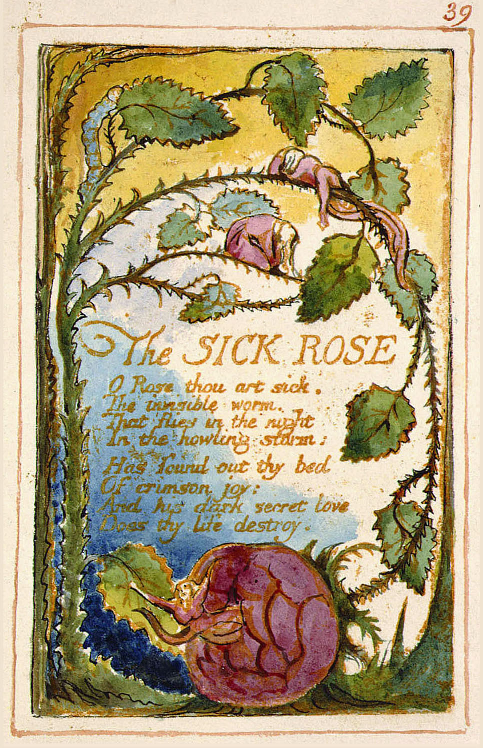 A plate, numbered 39 "The Sick Rose", from the songs of experience (The songs of innocence and of experience) composed sometime between 1789 and 1794. The print date was 1825, probably undertaken by William's Kate, and issued in 1825 (or 1826)